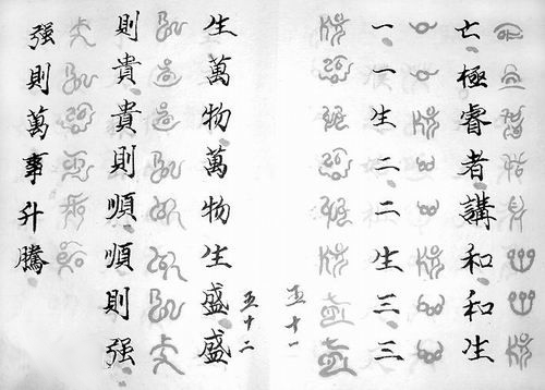 Jiutian Dapu Historical Materials